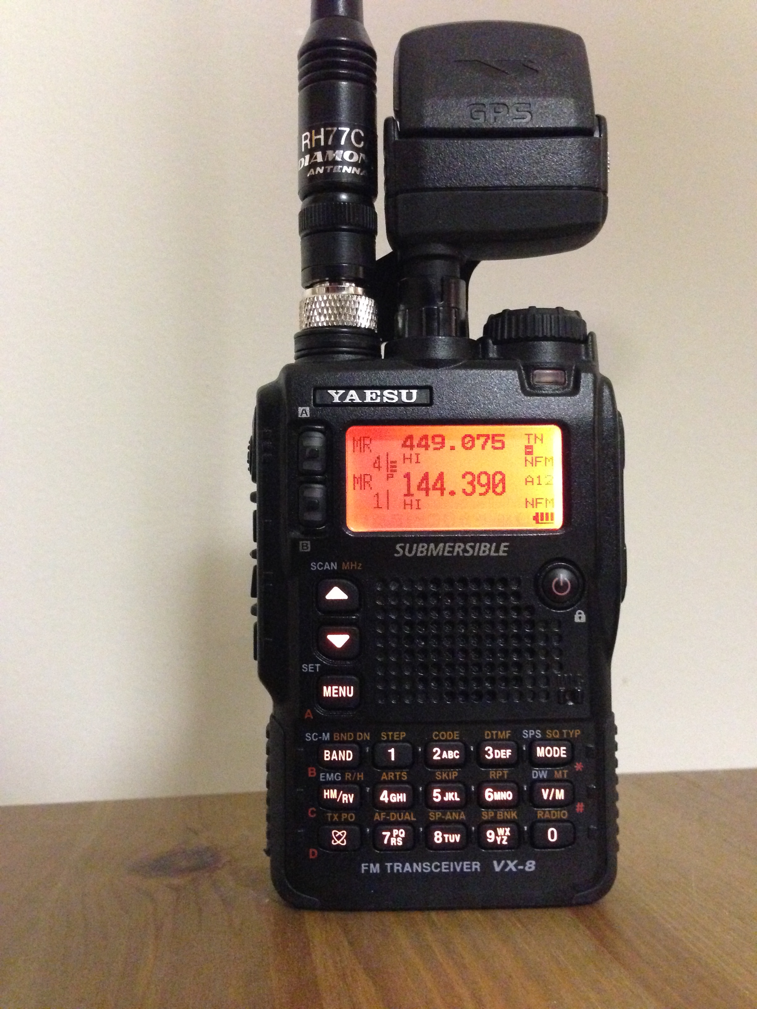 Yaesu model VX-8R Handie-Talkie with optional GPS module installed